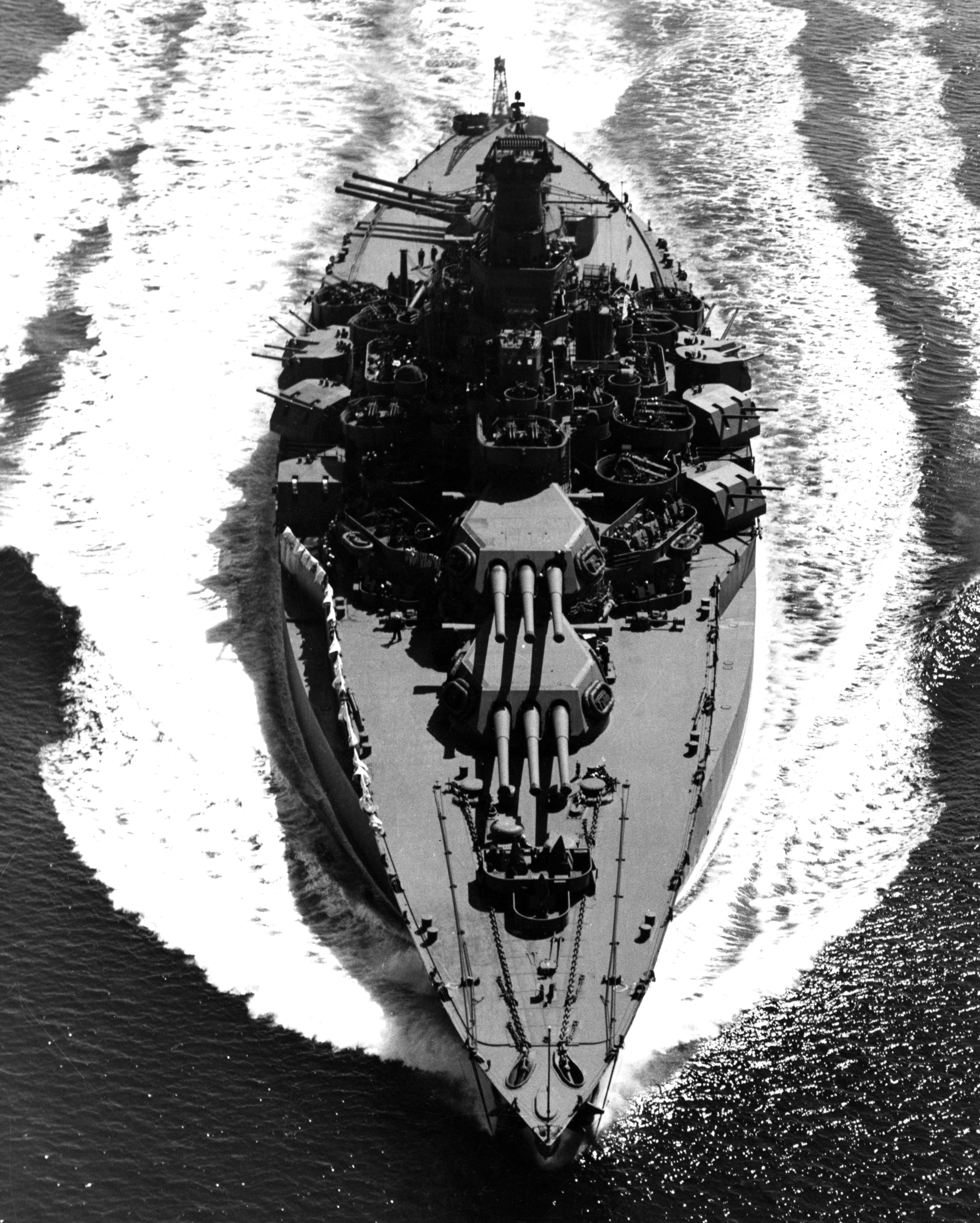 The U.S. Navy battleship USS Tennessee (BB-43) underway on 12 May 1943. Tennessee was damaged in the Japanese attack on Pearl Harbor 7 December 1941 and was afterwards given a very extensive reconstruction. This gave her the enormous beam apparent in this photograph.